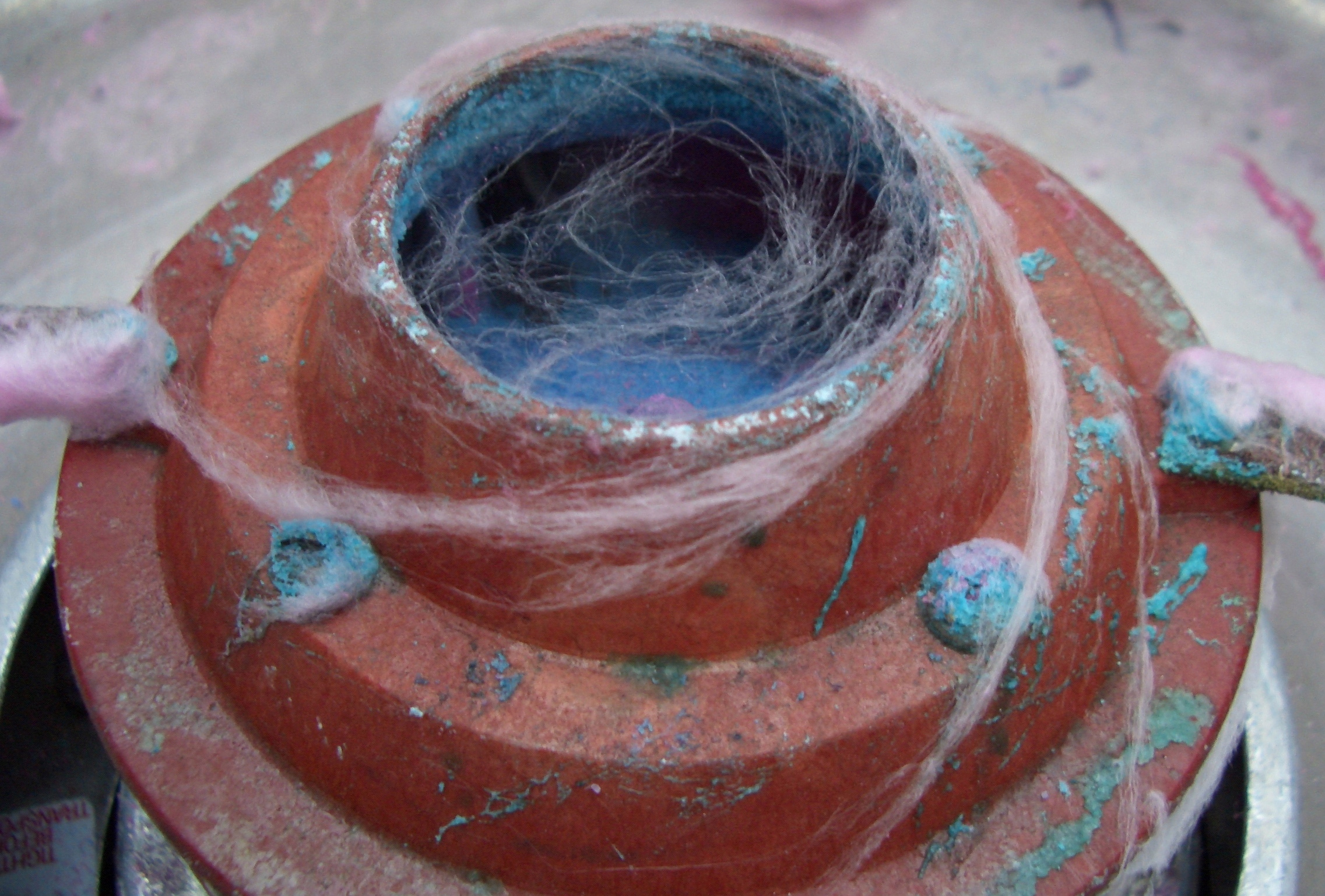 Cotton Candy machine part